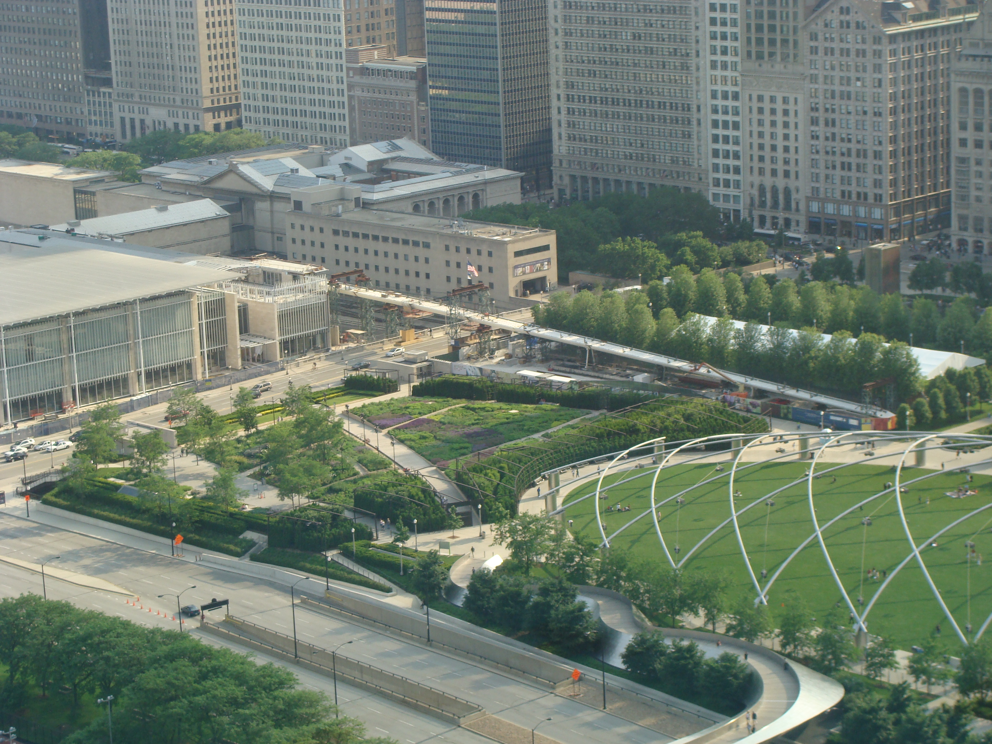 The Lurie Garden and the Nichols Bridgeway from The Buckingham